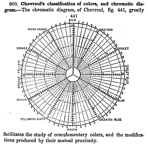 Chevreul's 1855 "chromatic diagram" based on Red–Yellow–Blue color model for paint mixture, as reprinted by Benjamin Silliman (1859) First principles of physics: or Natural philosophy, designed for the use of schools and colleges